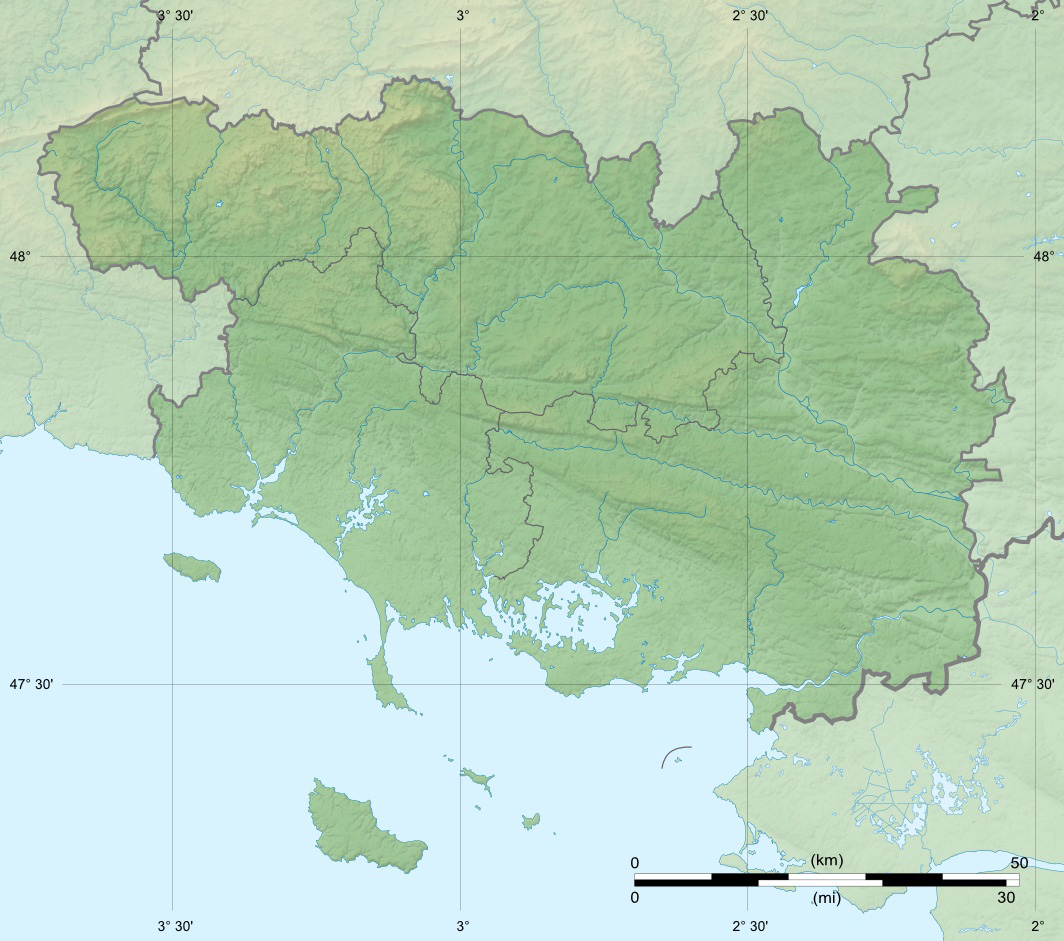 Blank physical map of the department of Morbihan, France, for geo-location purpose, with distinct boundaries for regions, departments and arrondissements.